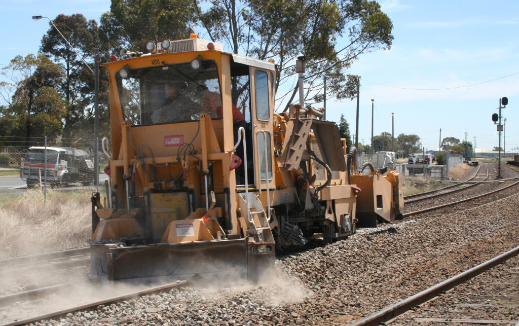 A ballast regulator in Victoria, Australia plowing freshly placed ballast